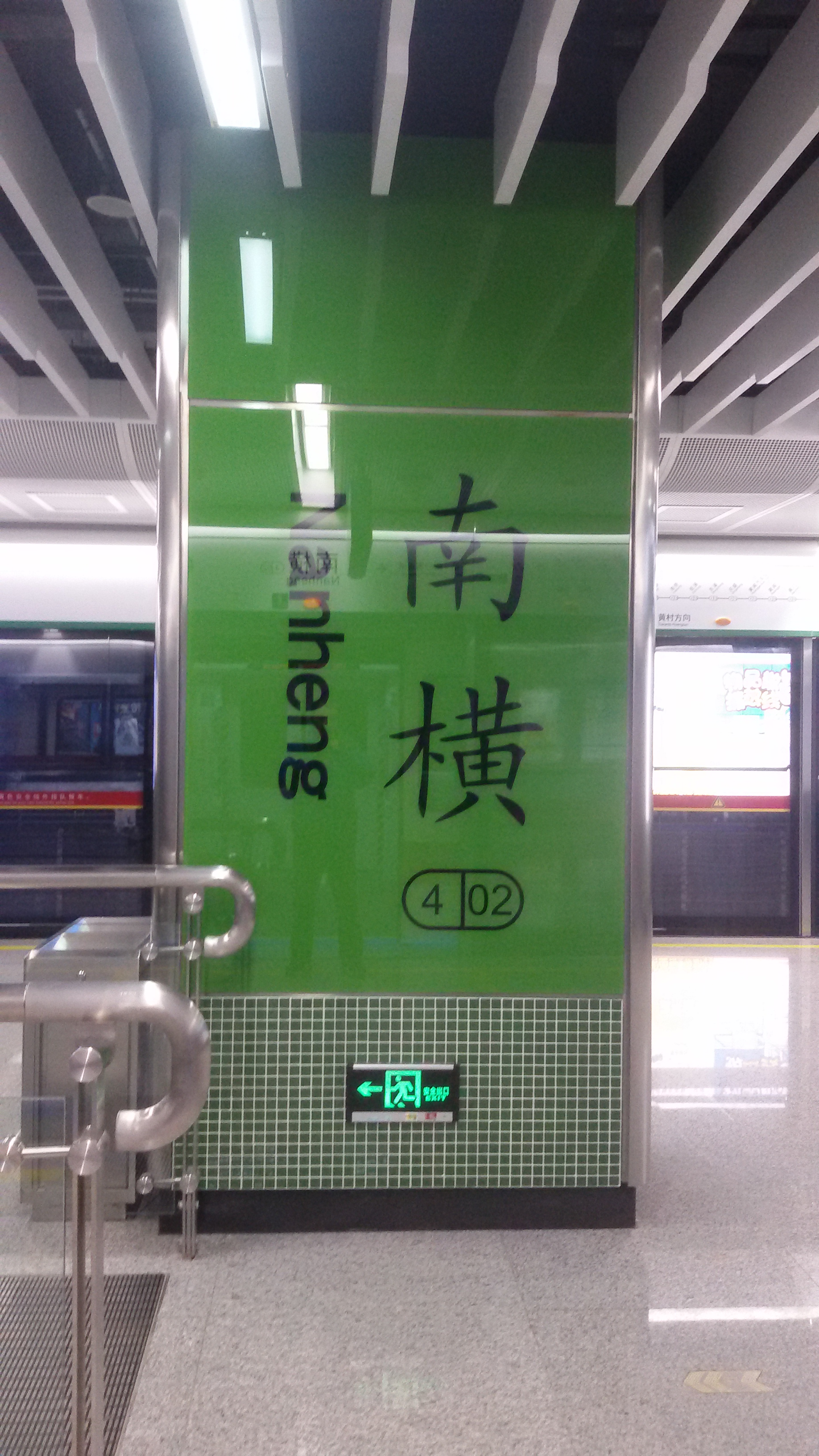 WORD on PILLAR for Nanheng Station in Guangzhou Metro